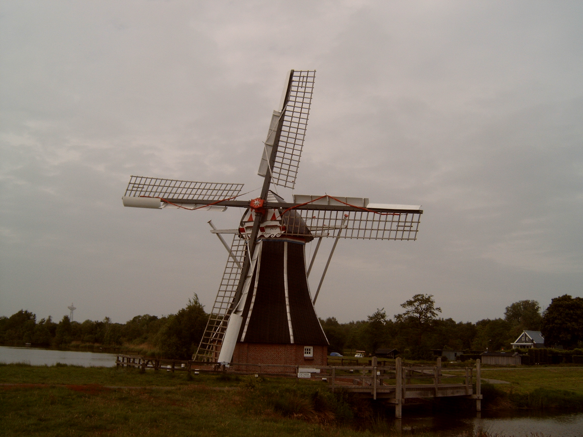 Paterswoldse Meer, windmill